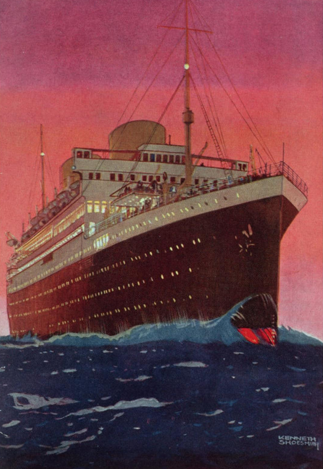 The Royal Mail Lines liner Alcantara at sea